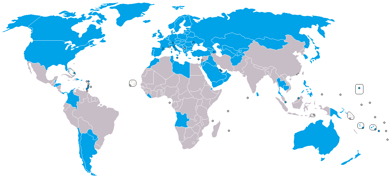 Map of Proliferation Security Initiative endorsing states, as of April 2013